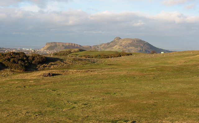 Braid Hills and Arthur's Seat There is a golf course on the Braid Hills, and the landscape alternates between close cropped grass and whin. A very fine viewpoint over Edinburgh.